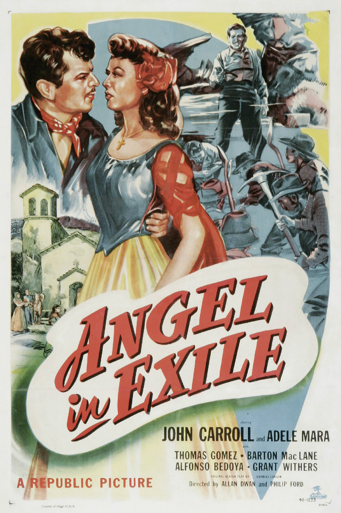 Poster for the 1948 film Angel in Exile. There are no copyright marks. At bottom left is Country of origin USA. At bottom right is 48-1273 35966.